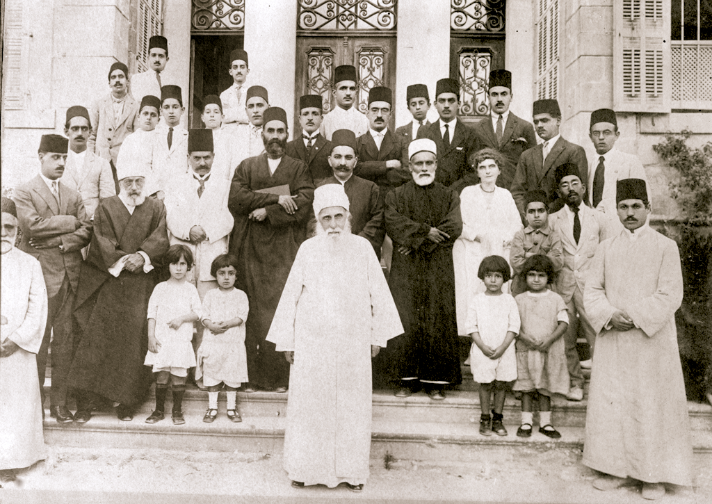 ‘Abdu’l-Baha with grandsons and other Baha’is: Top row, left: Ruhi Afnan, Soheil Afnan. Hussein Rabbani (under Ruhi Afnan). Munib Shahid (under Soheir Afnan, left). Kids, from left to right: Hassan Jalal Shahid, Fuad Afnan, Riaz Rabbani. Bottom left: Agha Mirza Mohsen Shirazi Afnan (son-in-law). Photo was taken circa 1920 at ‘Abdu’l-Baha’s house, 7 Persian Street, Haifa.